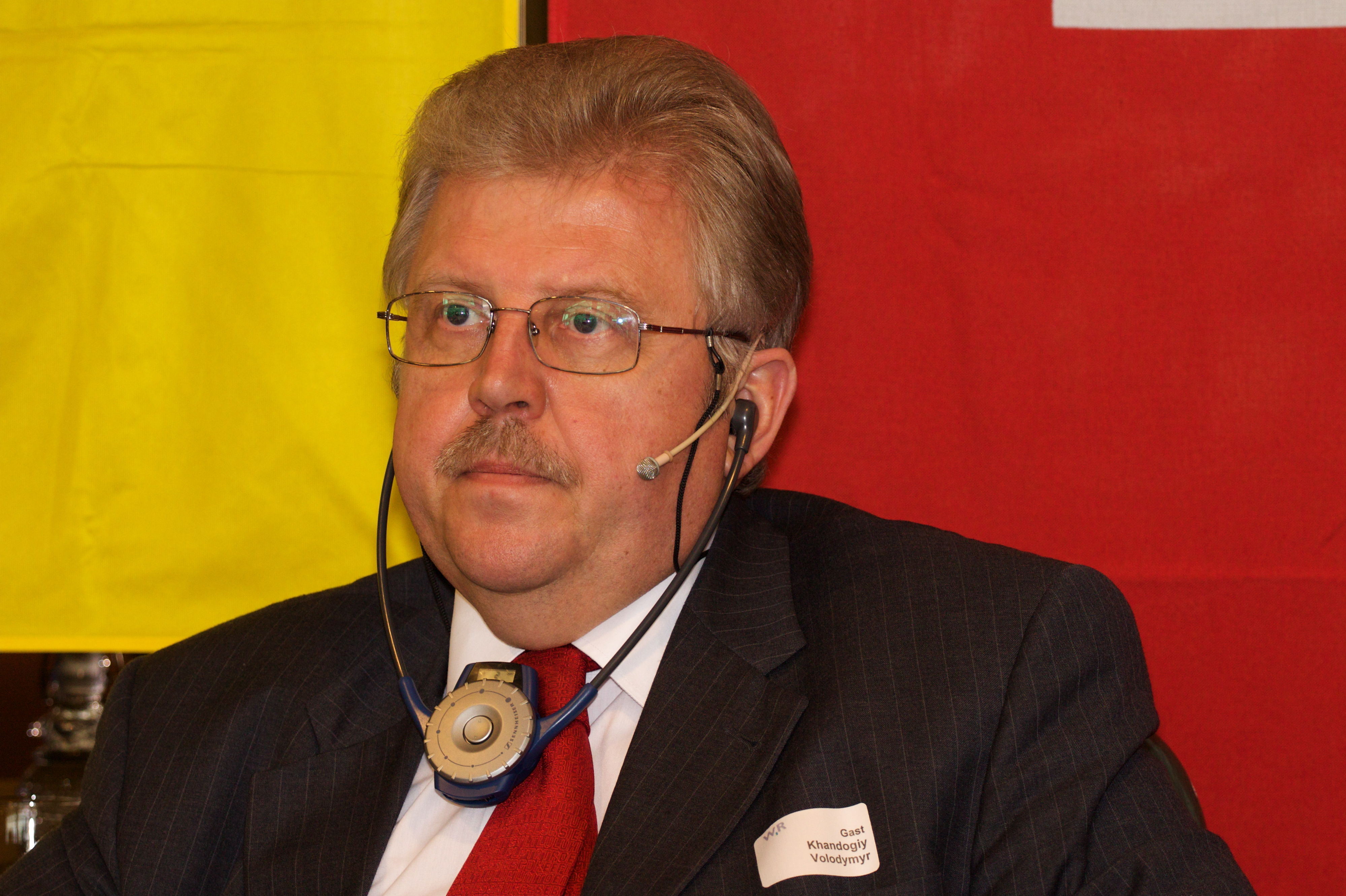 Volodymyr Khandohiy, acting Minister of Foreign Affairs of Ukraine in 2009